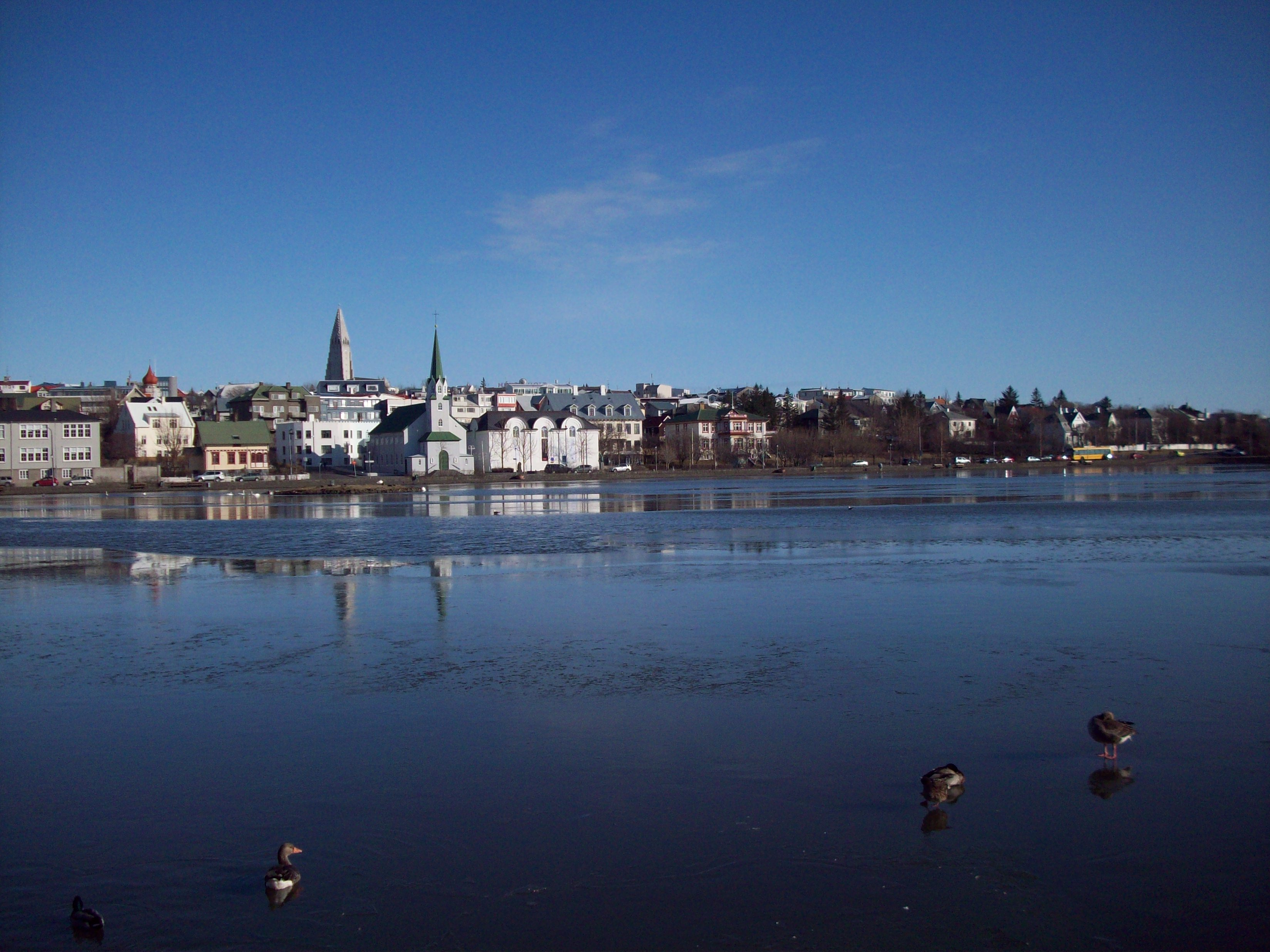 Tjörnin (Reykjavík)